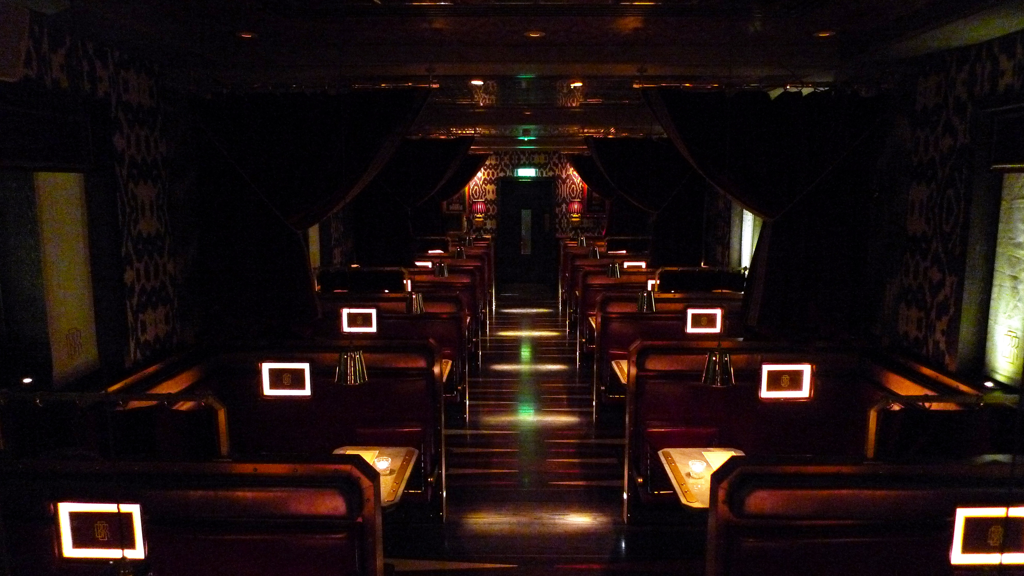 The booths downstairs are rather cosy and lovely. ( View of exterior. )